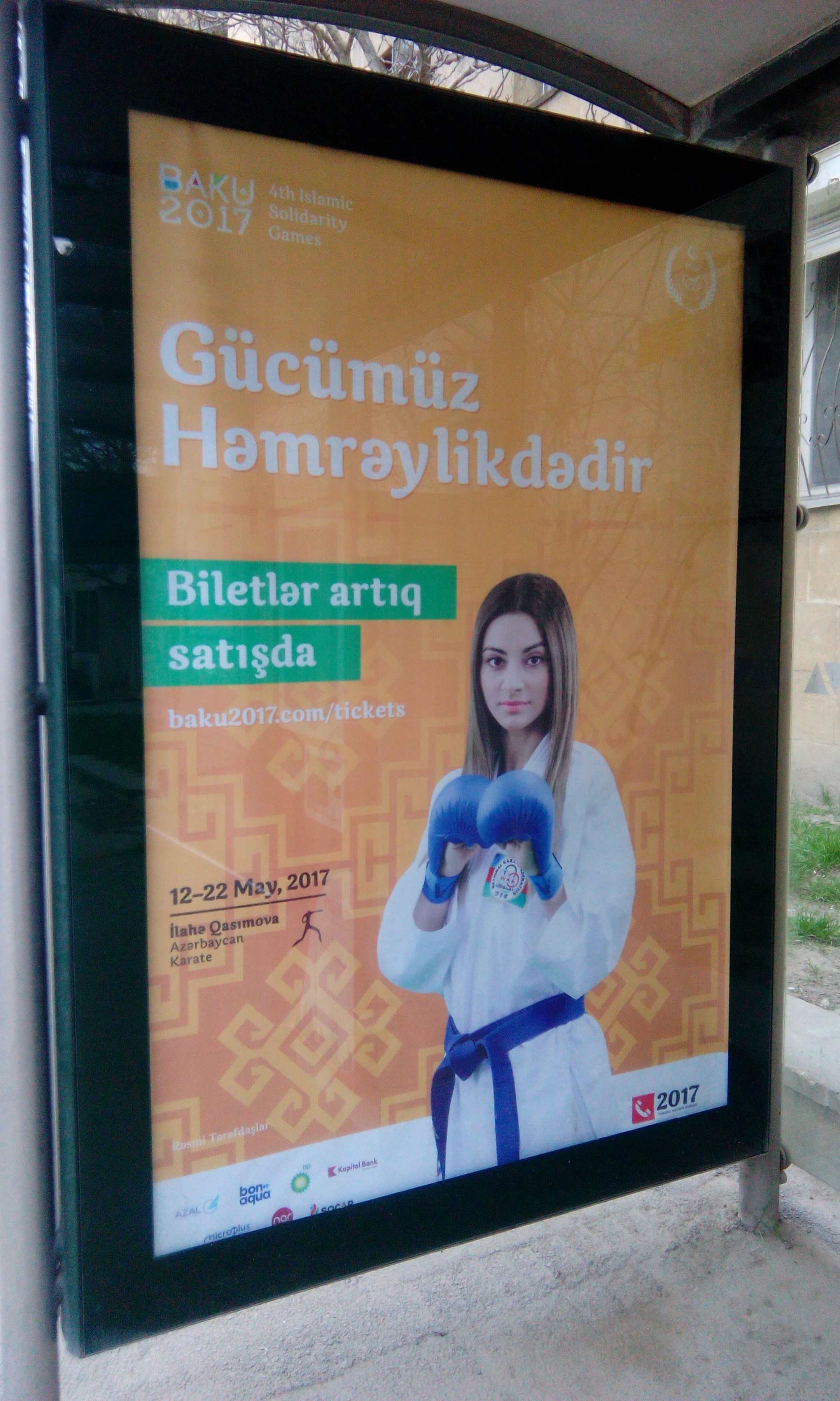 2017 Islamic Solidarity Games poster at bus stopping place